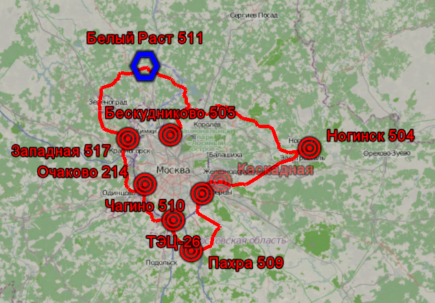 This is a map of 500 kV power lines from Moscow Power Ring.